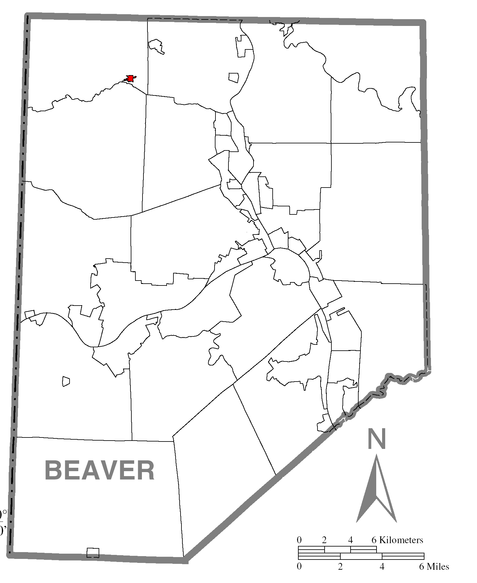 A map of Beaver County showing Darlington, Pennsylvania (alternate) highlighted on the map.